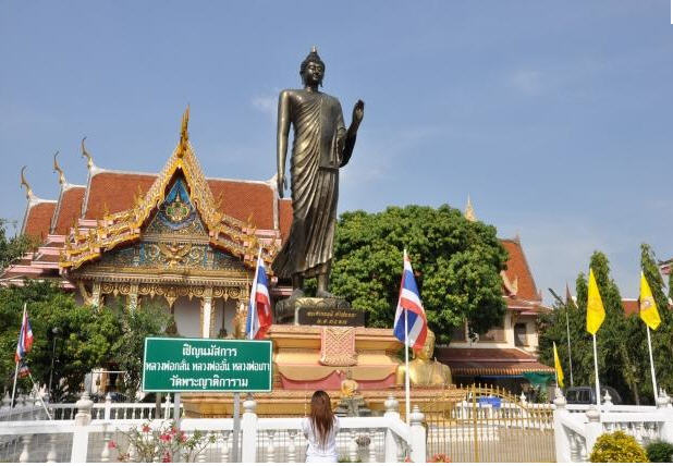 Wat Prayatikaram, Ayutthaya